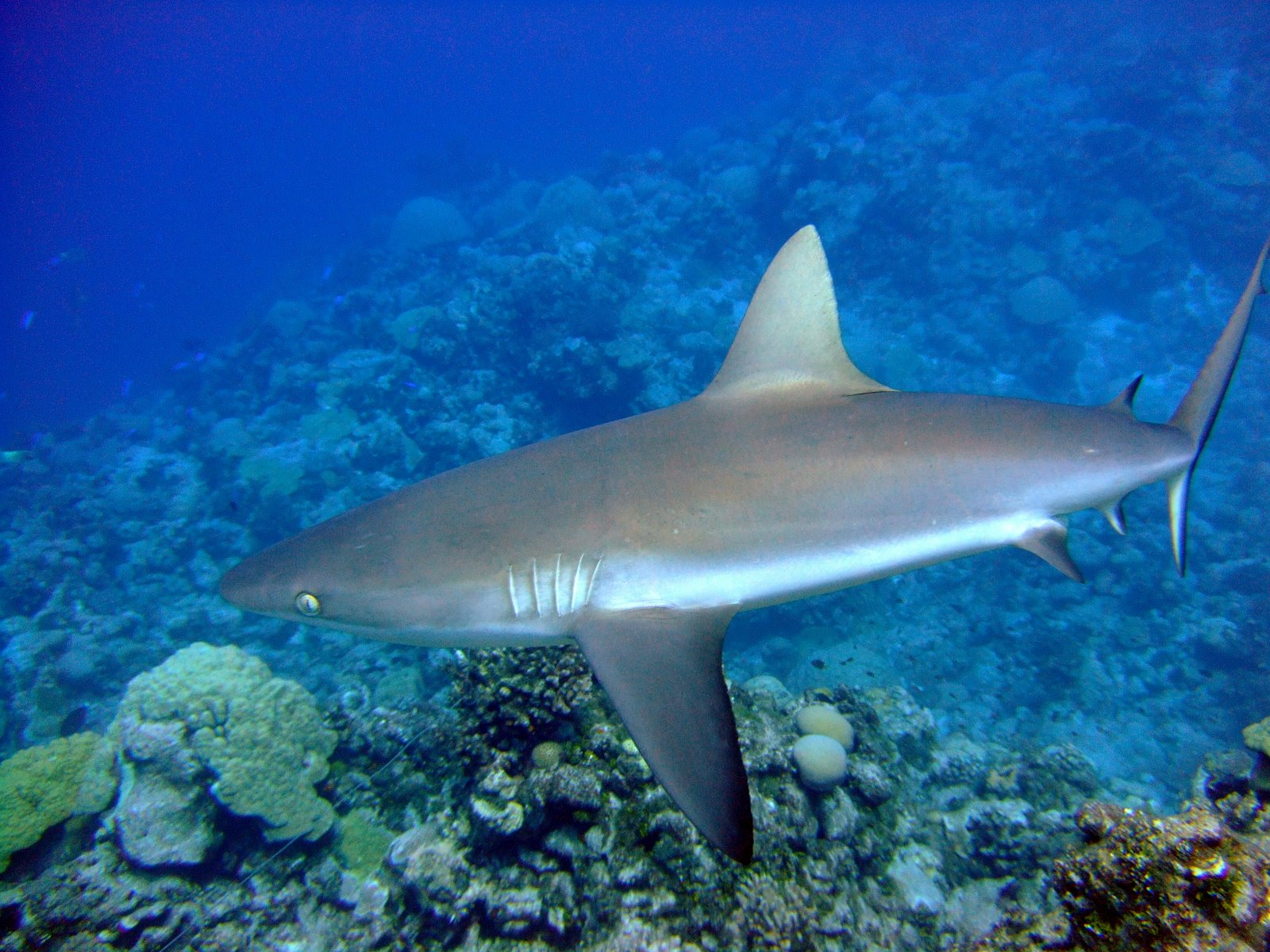 Grey reef shark (Carcharhinus amblyrhynchos) off Wake Island.